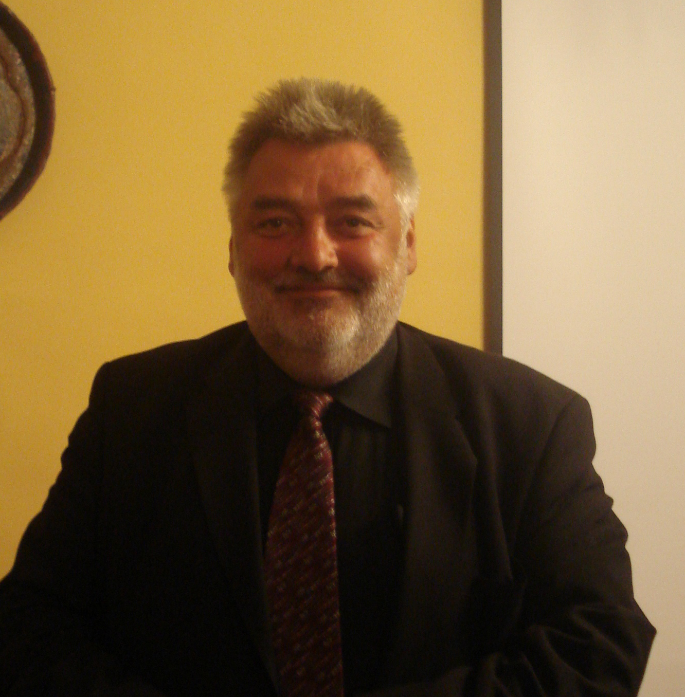 Alfredas Bumblauskas (born on November 18, 1956), professor at Vilnius University and Lithuanian historian.